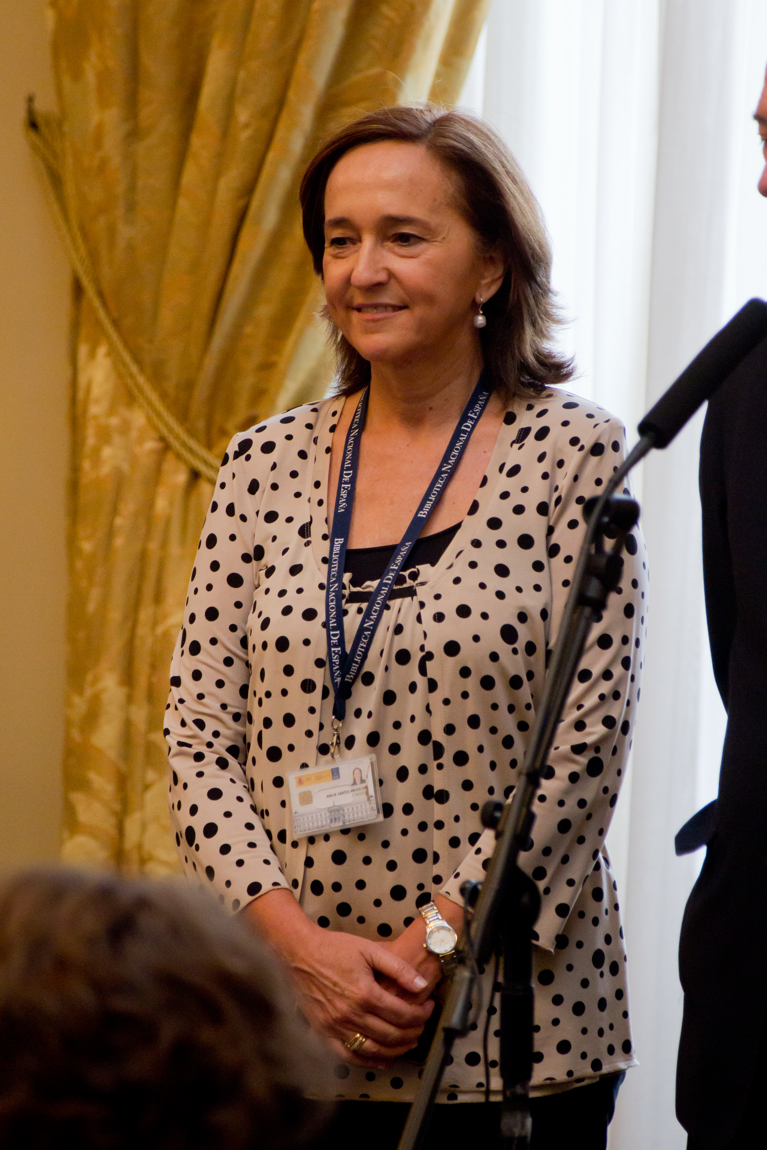 Ana Santos Aramburo, director of the Spanish National Library, at the presentation of the Wiki Editathon Madrid 2014 at that Library, about Spanish language and literature.